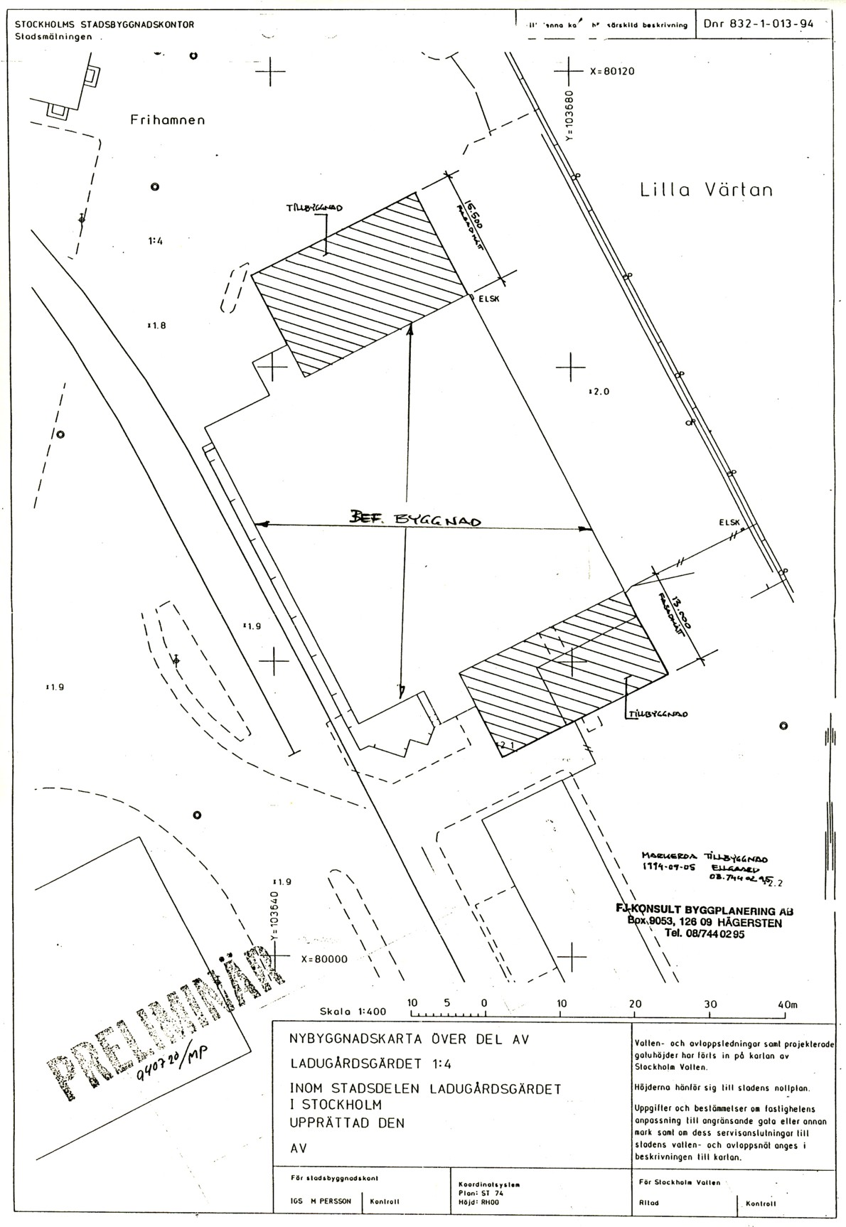 Side map, plot map for "AB Banankompaniet" in Stockholm